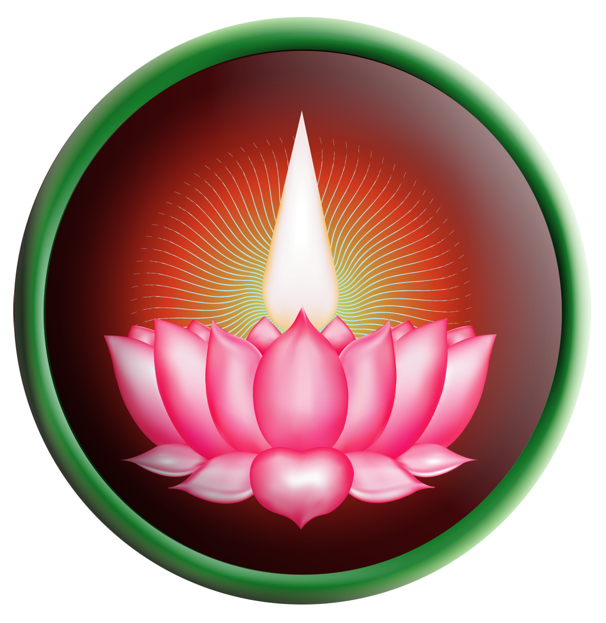 Symbol of Ayyavazhi